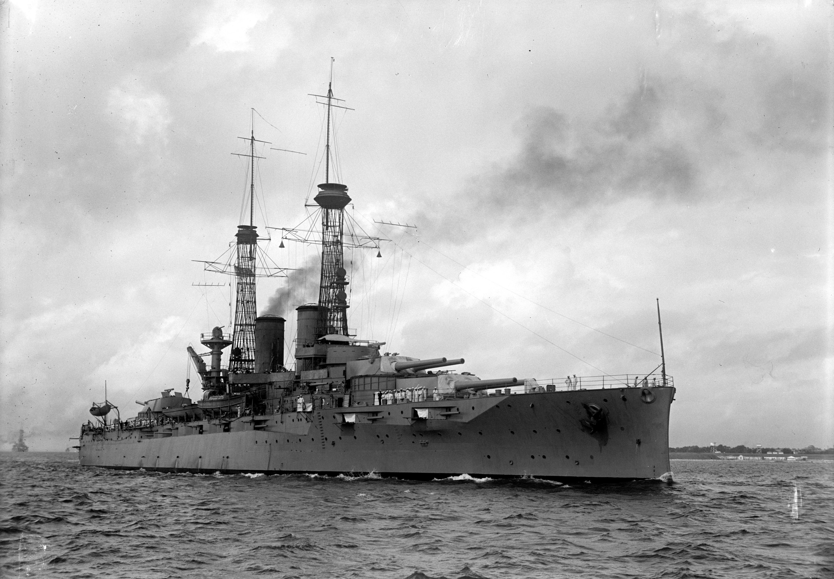 New York class battleship (most likely USS Texas judging by placement of searchlights on the main mast) in Hampton Roads